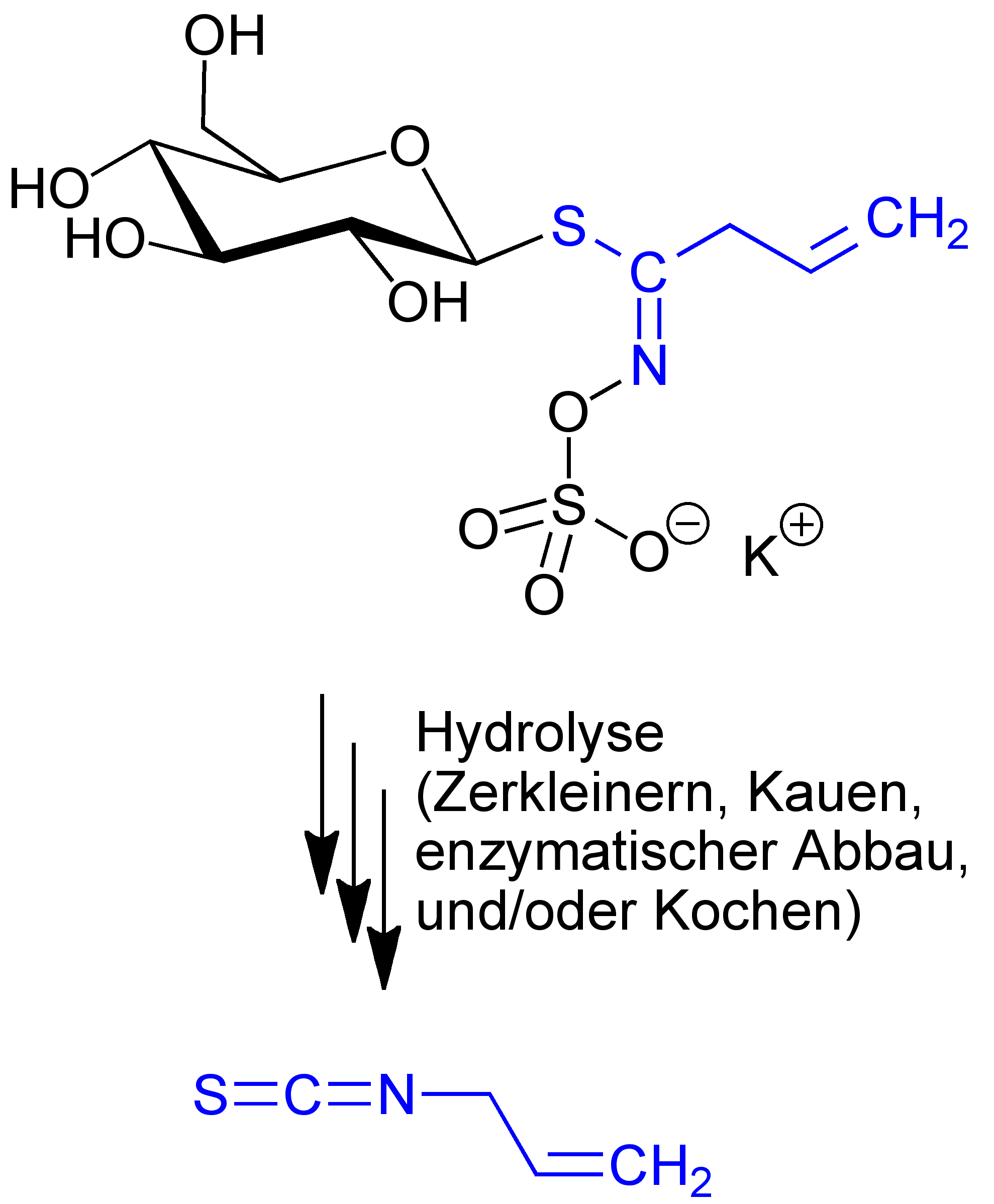 Thioglycoside_to_Allyl_Isothiocyanate